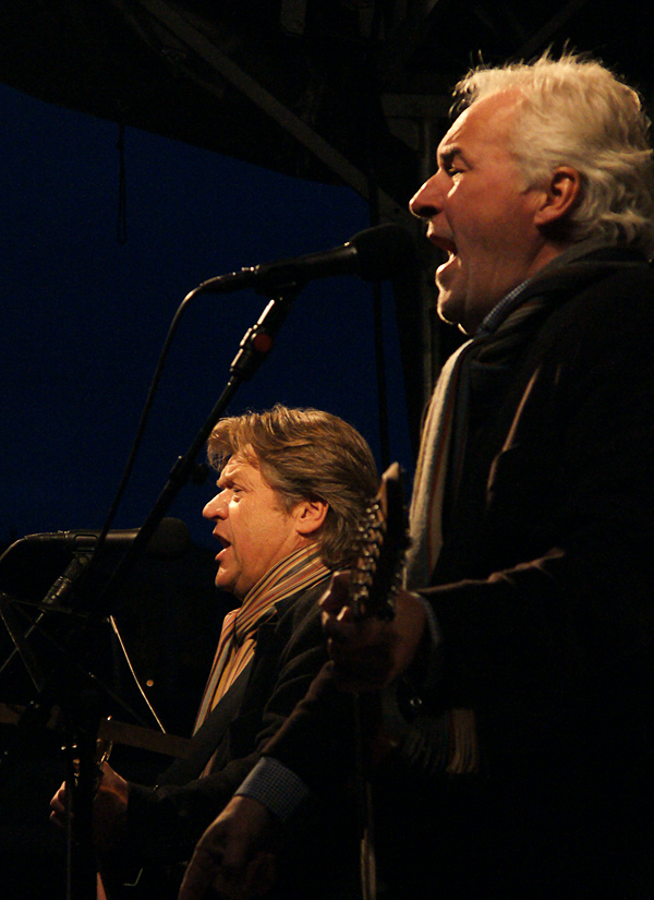 Olsen Brothers, a Danish rock/pop music duo, winner of Eurovision Song Contest 2000 with the song Fly on the Wings of Love